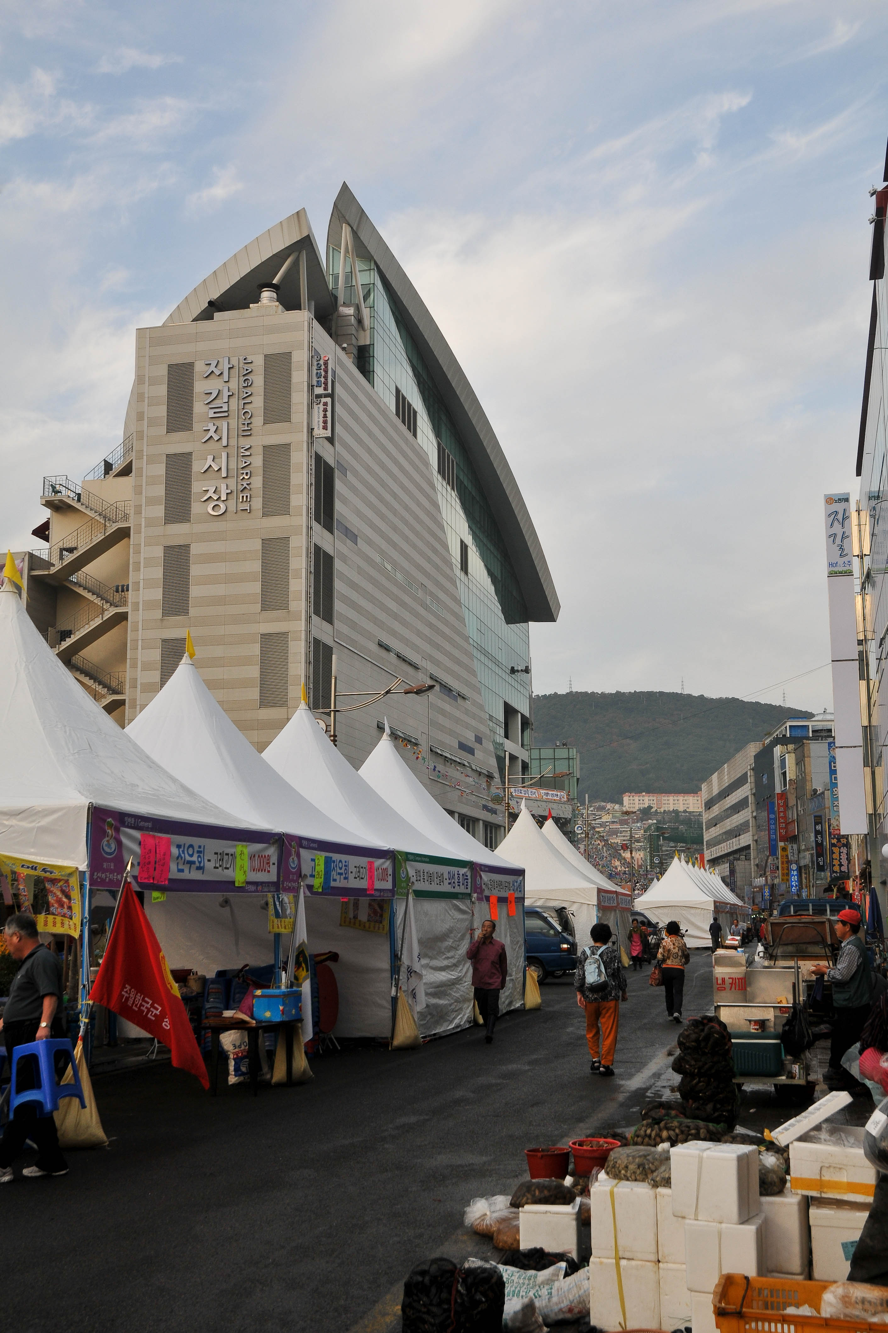 Jagalchi Fish Market at morning. Photograph from Flickr; author Doo Ho Kim; license of cc-by-sa-2.0.